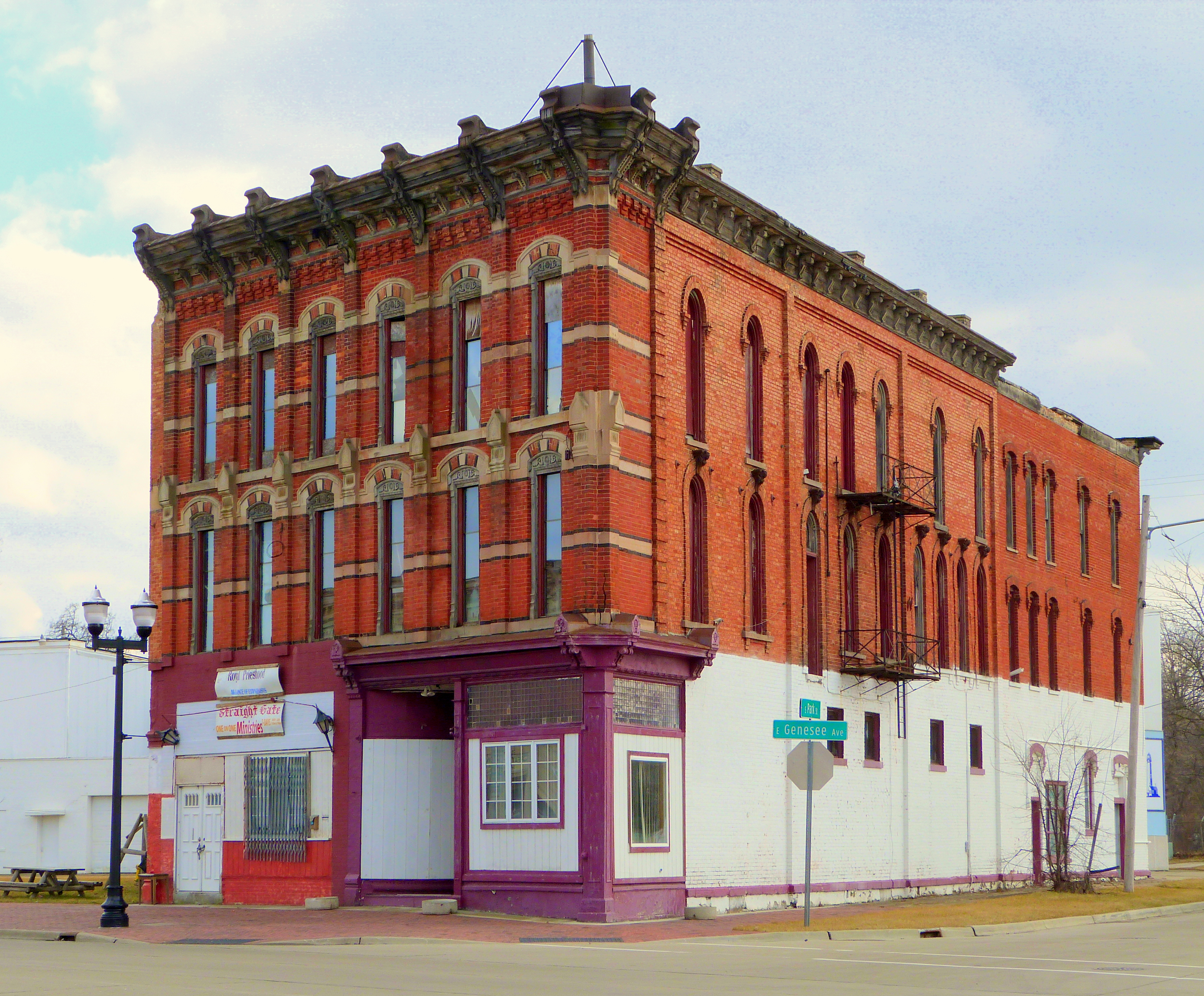 The historic Baumgarten Building (built 1874), located at 802 East Genesee Avenue in Saginaw, Michigan, United States, is listed as a contributing ("pivotal") resource in the East Genesee Historic Business District. The historic district is listed on the U.S. National Register of Historic Places.